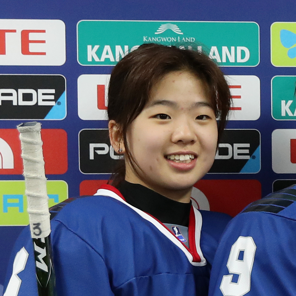 Members of the South Korean women's hockey team posing before their game against Australia. From left: Eom Su-yeon, Park Jong-ah, Han Soo-jin, Choi Yu-jung, Park Ye-eun, Lee Eun-ji IIHF Ice Hockey Women’s World Championship DIVⅡ Group A Korea vs Australia April 5, 2017 Kwandong Hockey Center, Gangneung-si, Gangwon-do Ministry of Culture, Sports and Tourism Korean Culture and Information Service ( Official Photographer : Jeon Han This official Republic of Korea photograph is being made available only for publication by news organizations and/or for personal printing by the subject(s) of the photograph. The photograph may not be manipulated in any way. Also, it may not be used in any type of commercial, advertisement, product or promotion that in any way suggests approval or endorsement from the government of the Republic of Korea.---------------------------------------------------- 2017 IIHF(국제아이스하키연맹) 아이스하키 여자 세계선수권대회 디비전Ⅱ 그룹 A한국 대 호주2017-04-05관동하키센터문화체육관광부해외문화홍보원코리아넷전한